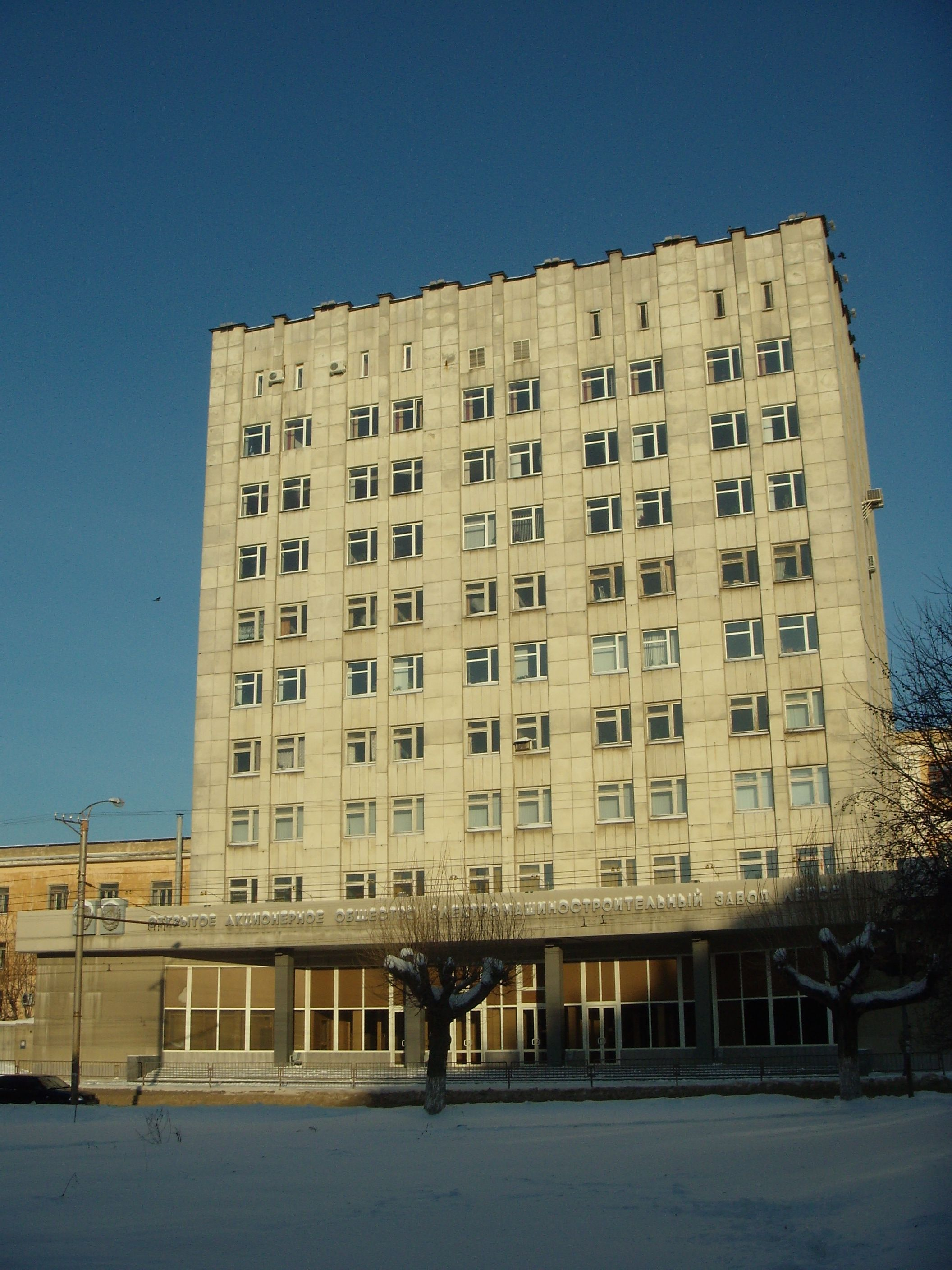 The central administrative building of factory Lepse, factory gate number 1